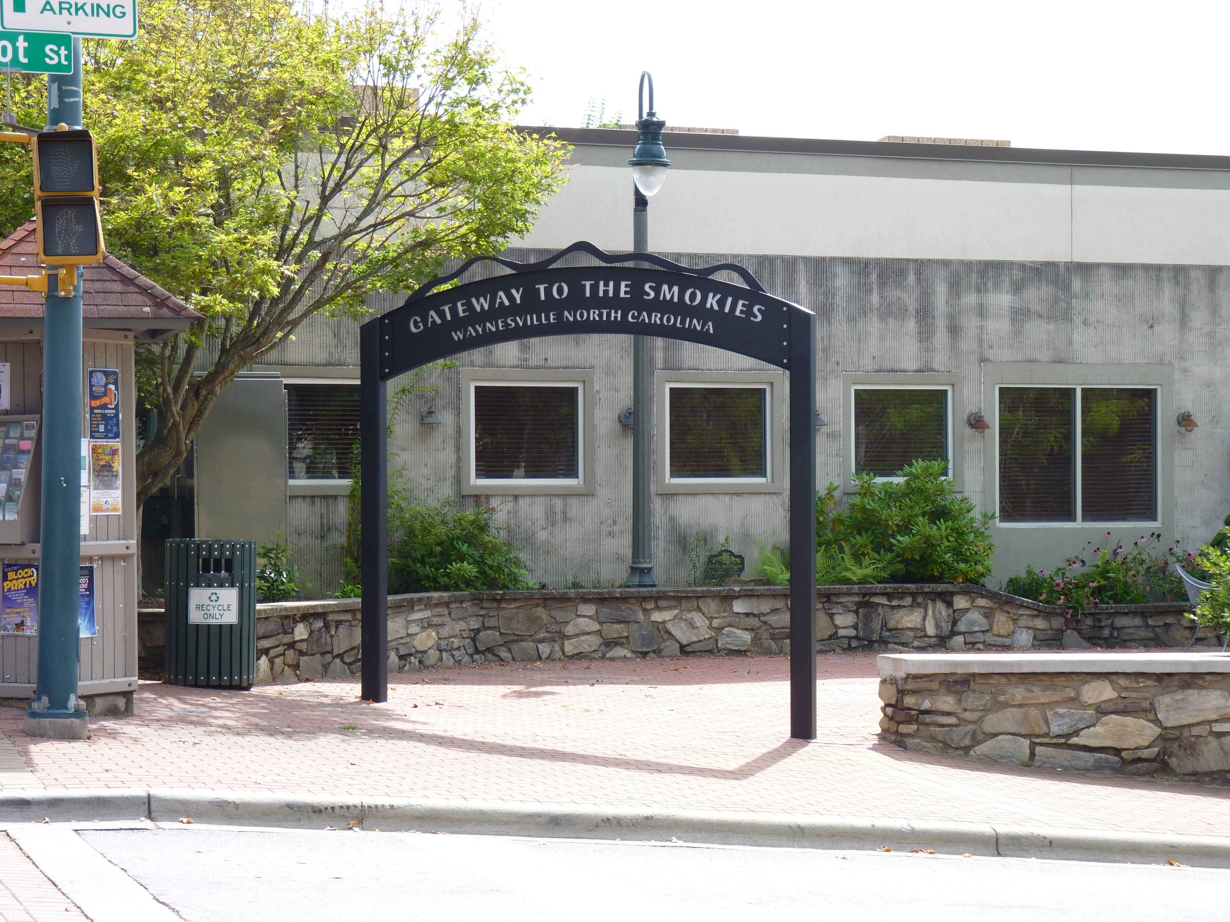 Sign, that says Waynesville, NC, Gateway to the Smokies on Main Street and Depot Street in Downtown Waynesville, NC